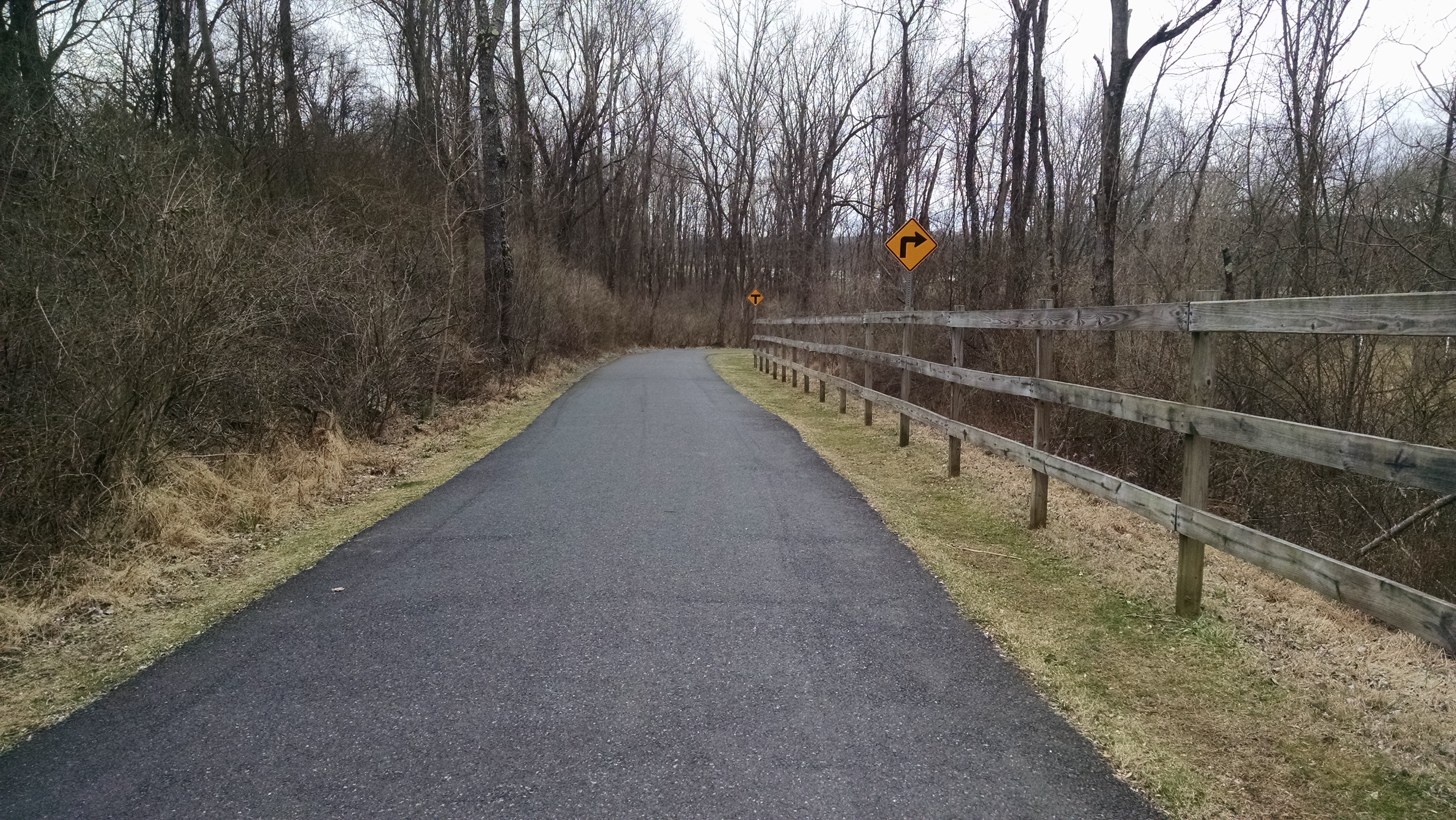 A paved portion of the Saucon Rail Trail (near Upper Saucon Township Community Park)